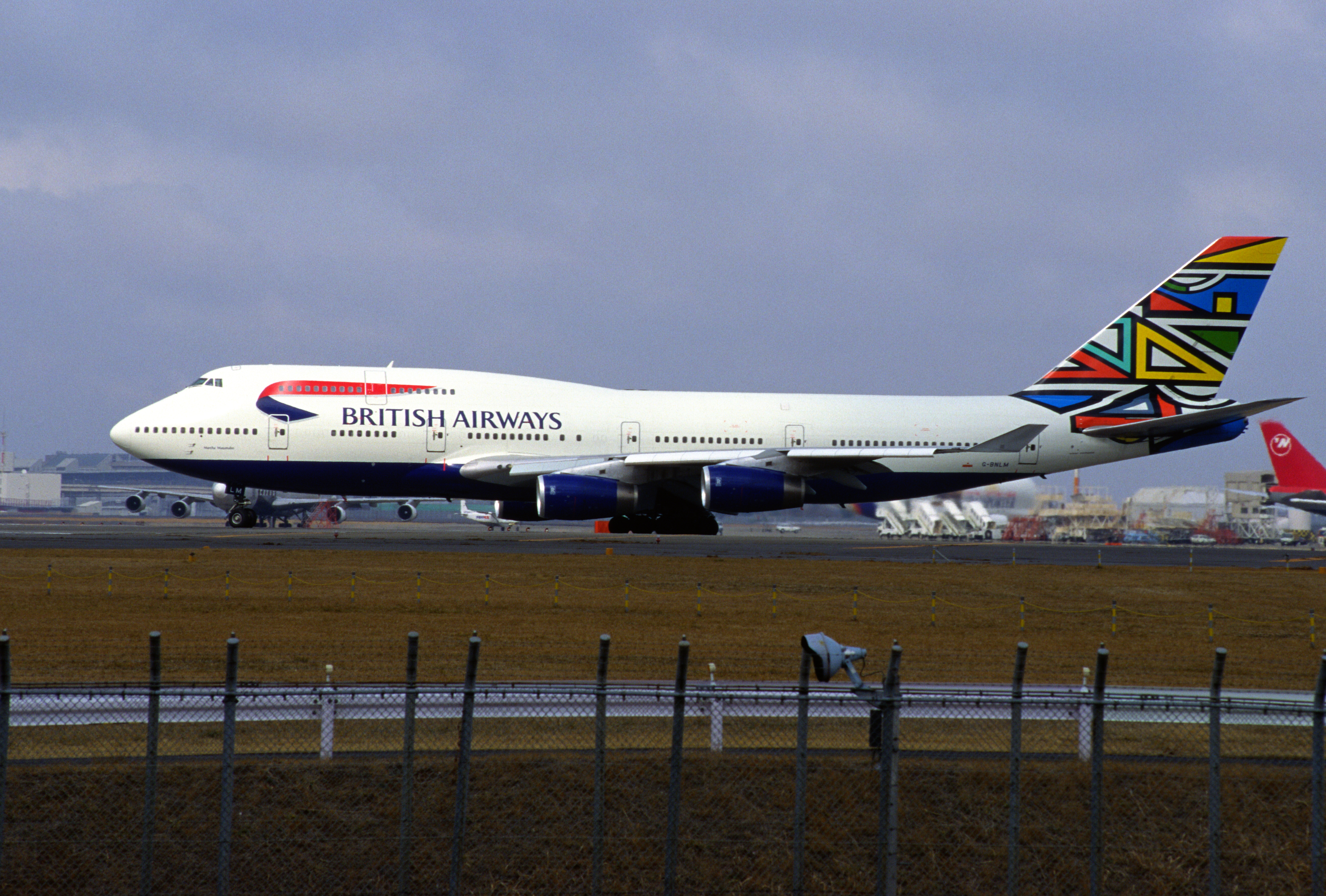 British Airways Boeing 747-436 (G-BNLM/24056/802), with one of its well-known and distincitve tail designs.